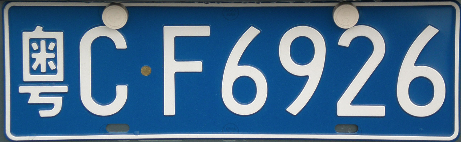 粵 license plate of Guangdong, People's Republic of China as seen in 2008.